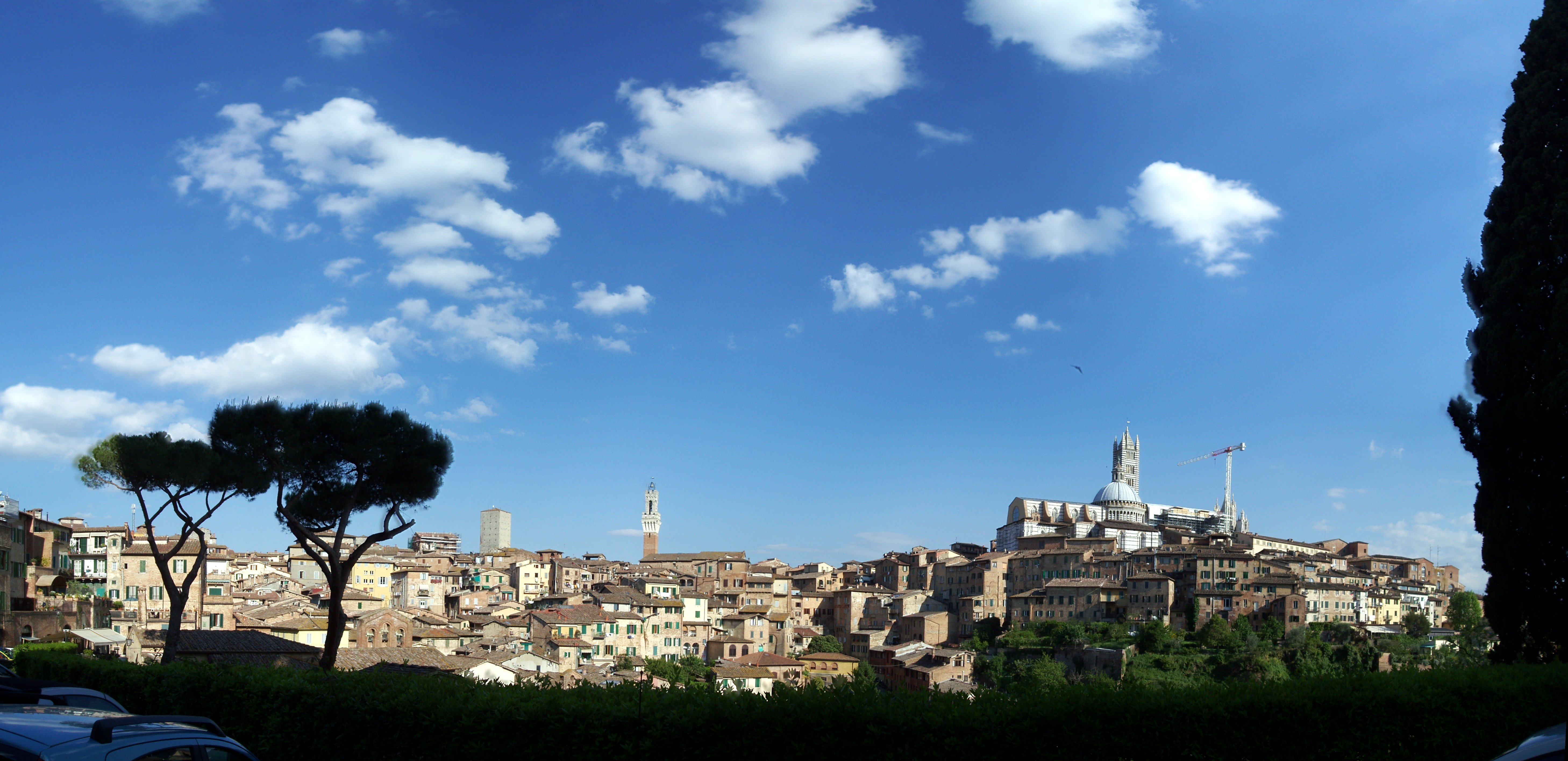 Panorama of Siena, Toscana, Italia